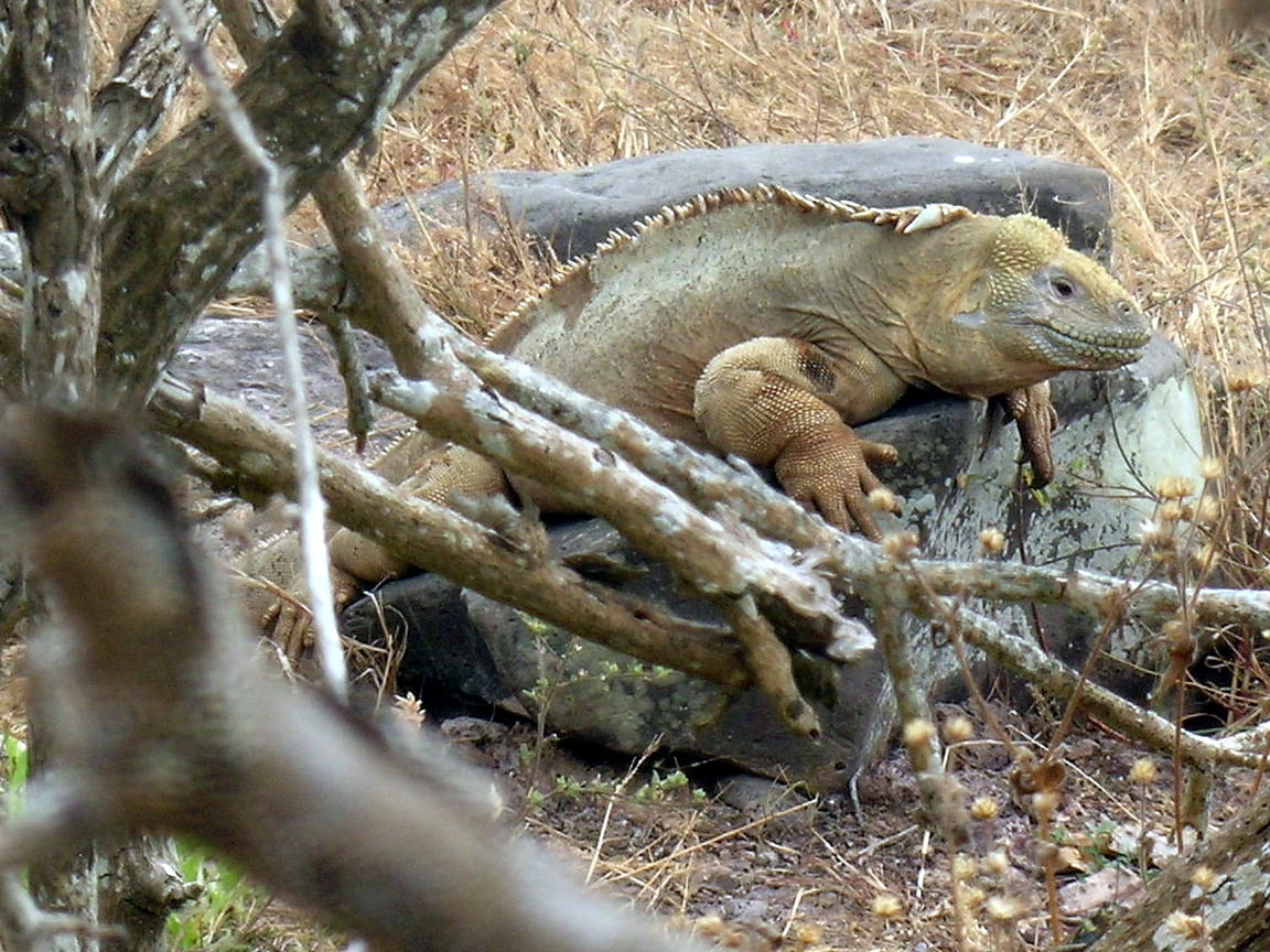 Santa Fe Land Iguana (Conolophus pallidus) on Santa Fe Island, Galapagos